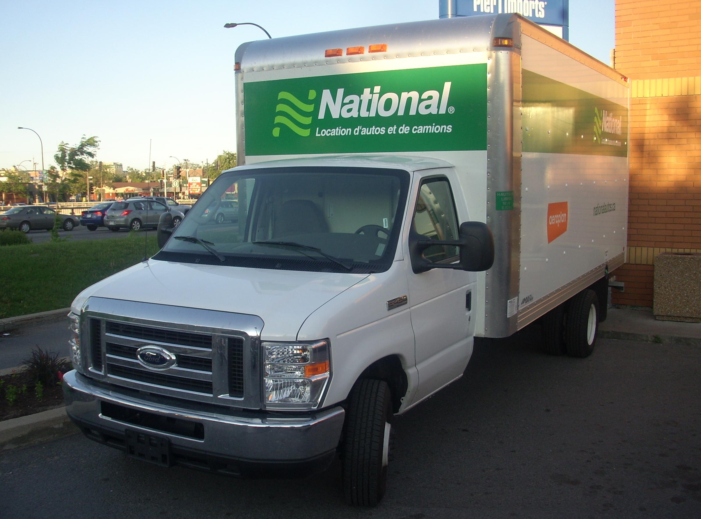 2008 Ford E-450 photographed in Montreal, Quebec, Canada.